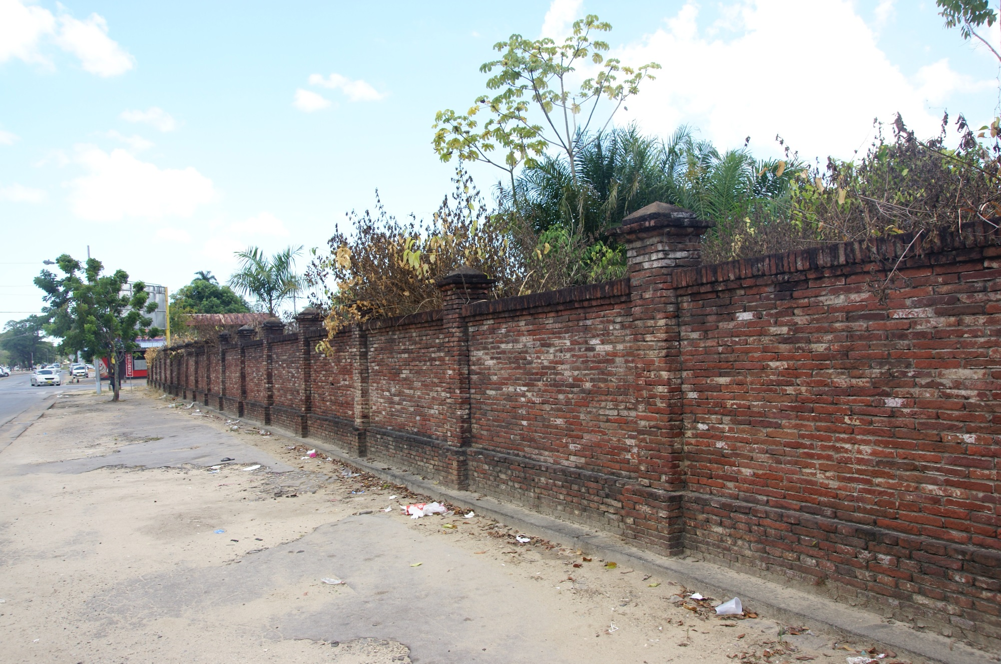 Nieuwe Oranjetuin, Dr. J.F. Nassystraat 8, Paramaribo, Surinam. Wall Swalmbergstraat.